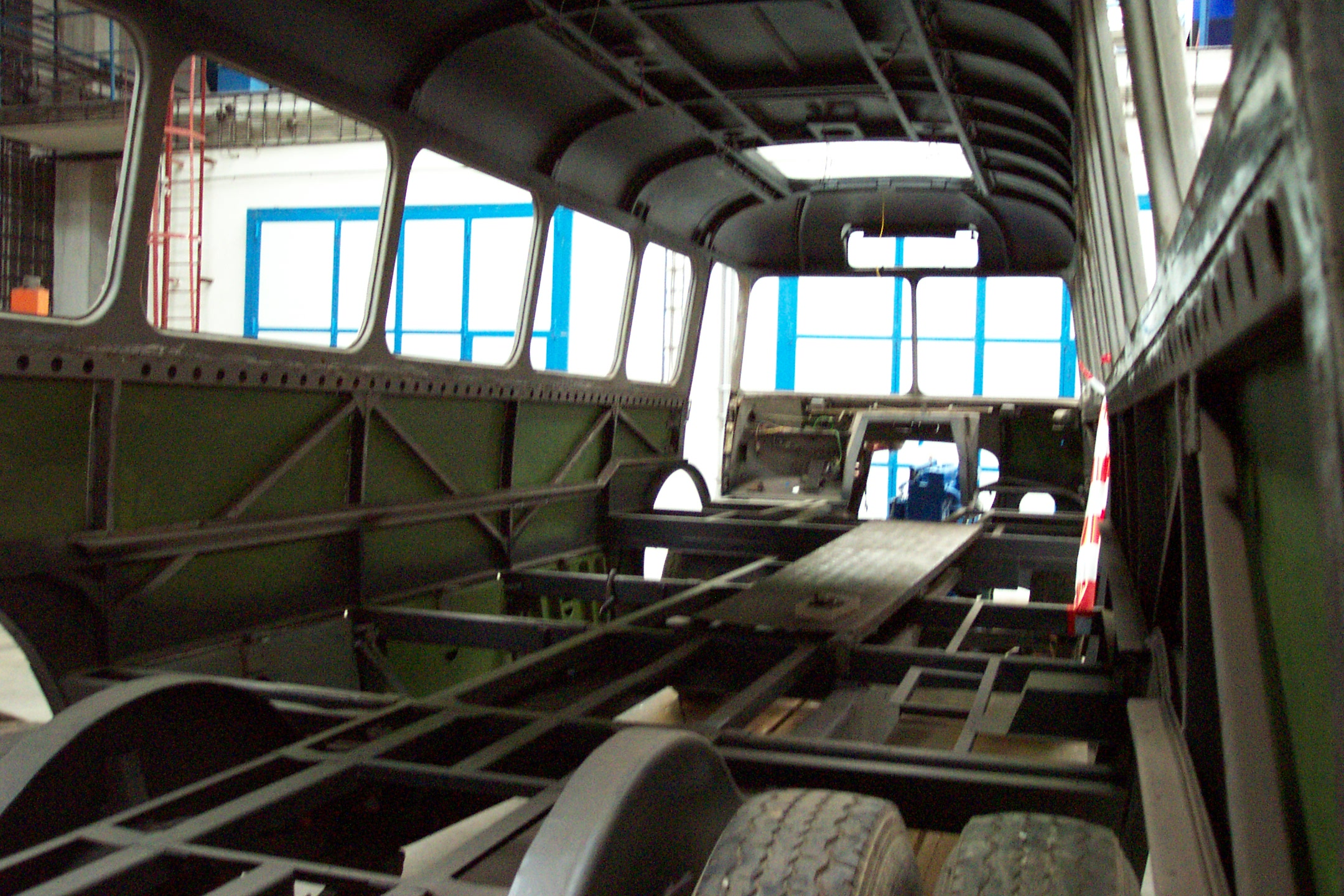 Bus type ŠKODA RTO MEX, under reconstruction